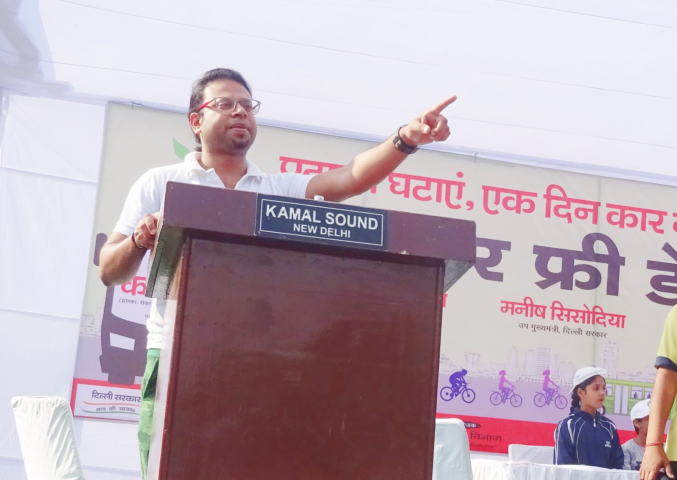 Blueair India head Mr. Vijay Kannan supporting the ‘car free day’ in Dwarka, New Delhi on 22nd November, 2015.